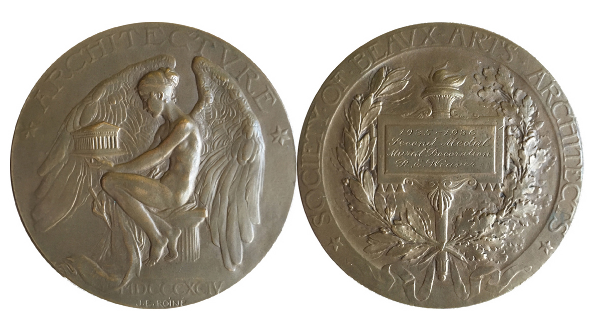 Image of the Society of Beaux Arts Architects medal won by Robert Edward Weaver for his design of a mural for a dining room in a country house in 1935-1936.